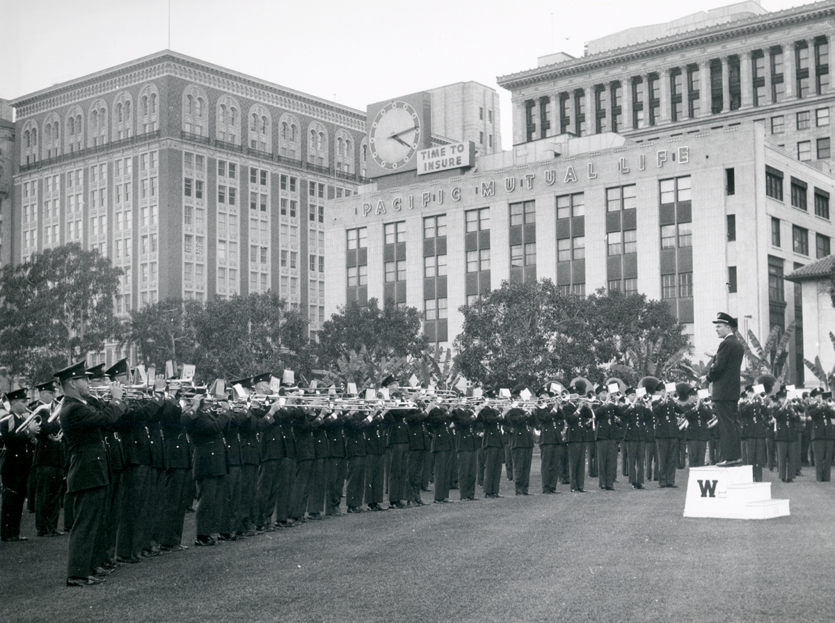 UW Band in front of Pacific Mutual Life building during 1963 Rose Bowl trip. Pasadena, California. Image ID# S06275. For more information about this image or UW-Madison campus history, .